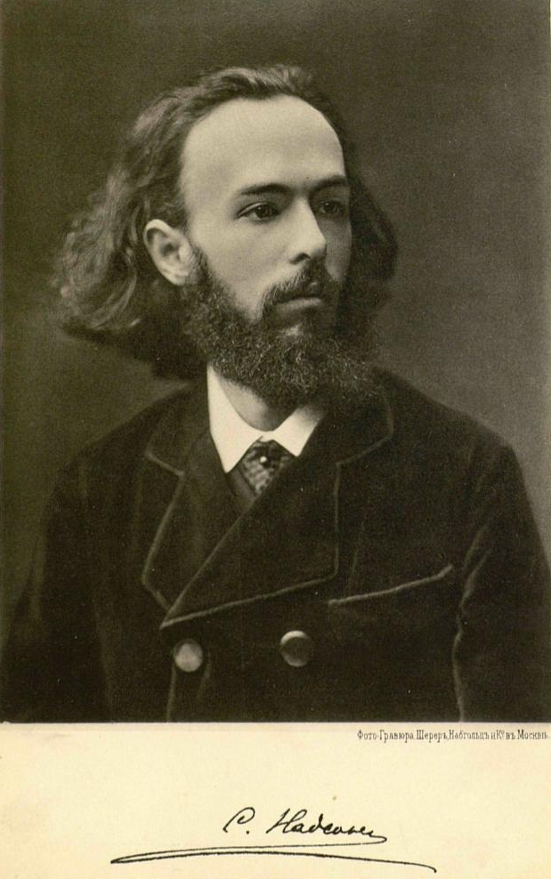 Russian poet Semyon Yakovlevich Nadson